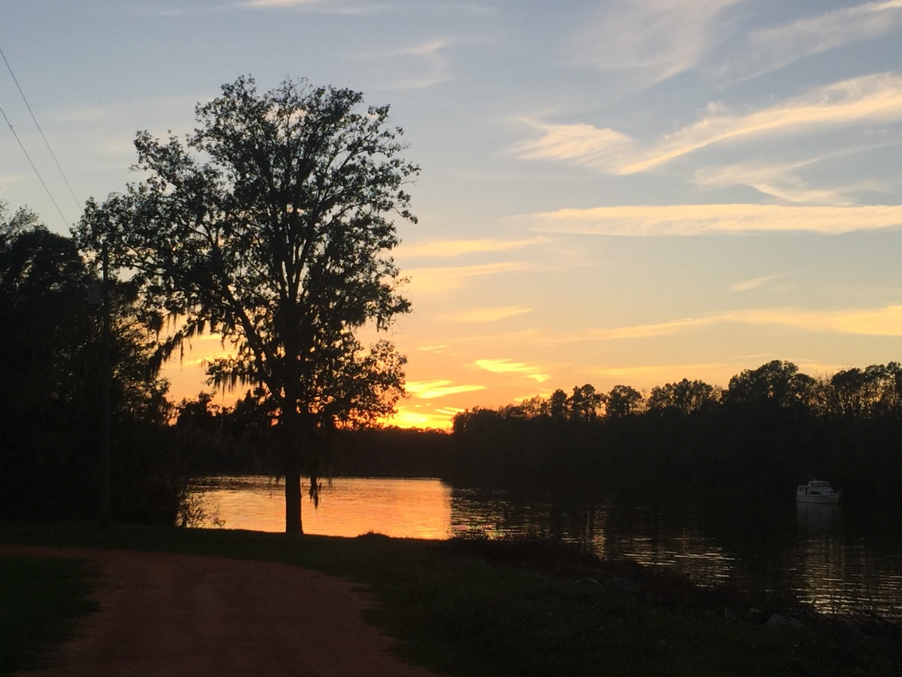 Sunset at the Bashi Creek Public Use Area at the end of Campbell Landing Road in Morvin, Alabama USA.